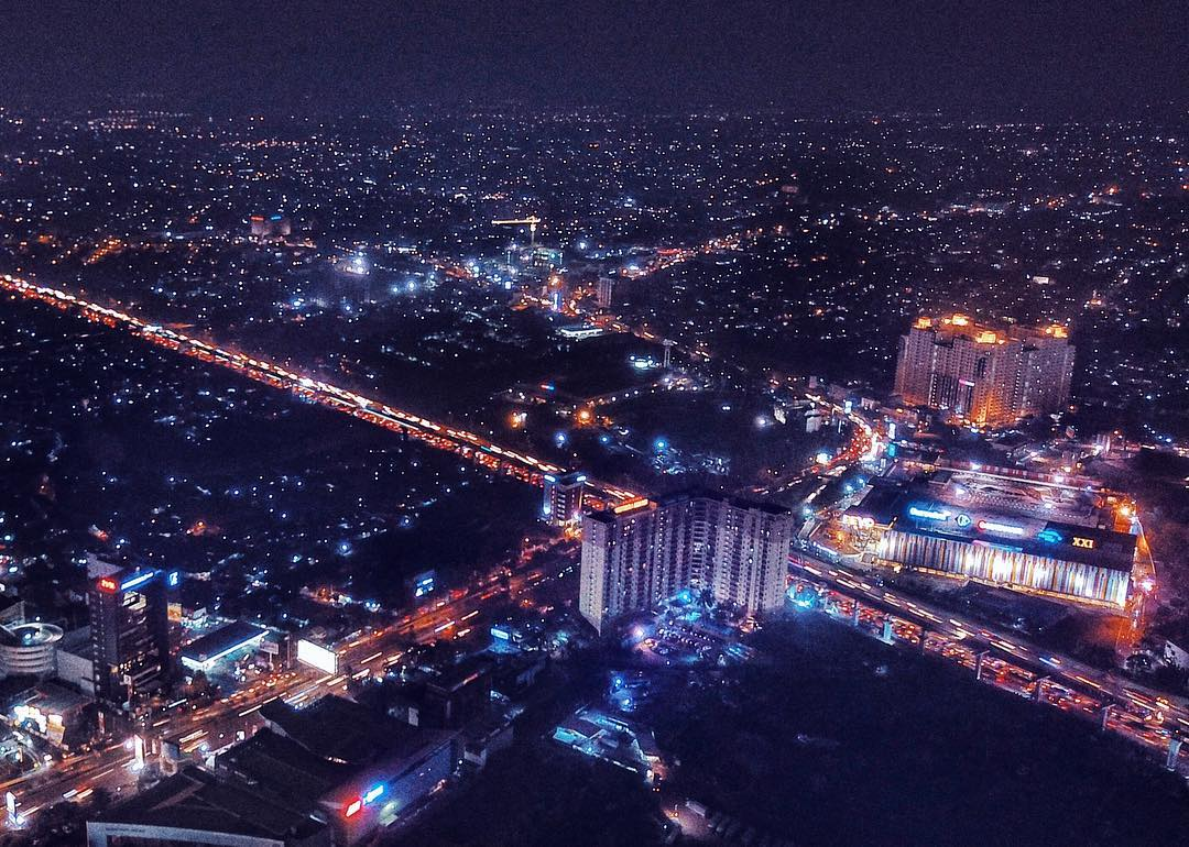 Bekasi, West Java, Indonesia